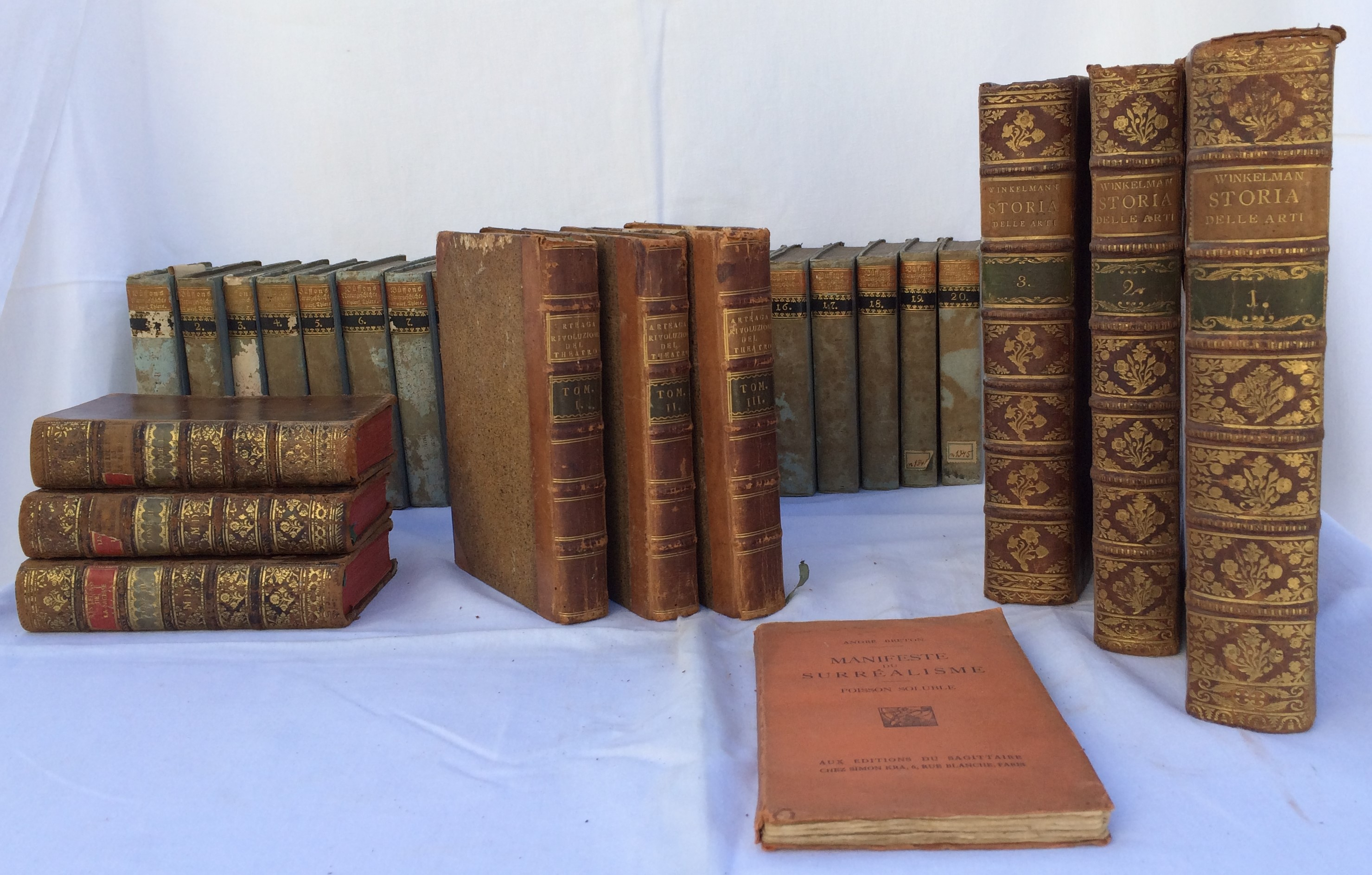 Old editions (before 1800) from the library of Petar Bingulac, part of his legacy in the Society for Culture, Art and International Cooperation Adligat in Belgrade, Serbia. Српски (ћирилица): Стара издања (пре 1800) из библиотеке Петра Бингулца, део његовог легата у Удружењу за културу, уметност и међународну сарадњу „Адлигат” у Београду.